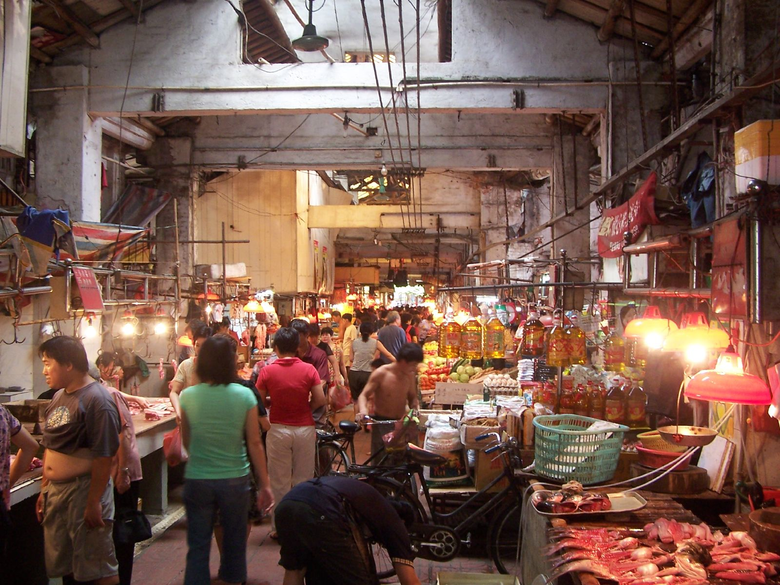 Market in Canton 粵語: 廣州街市